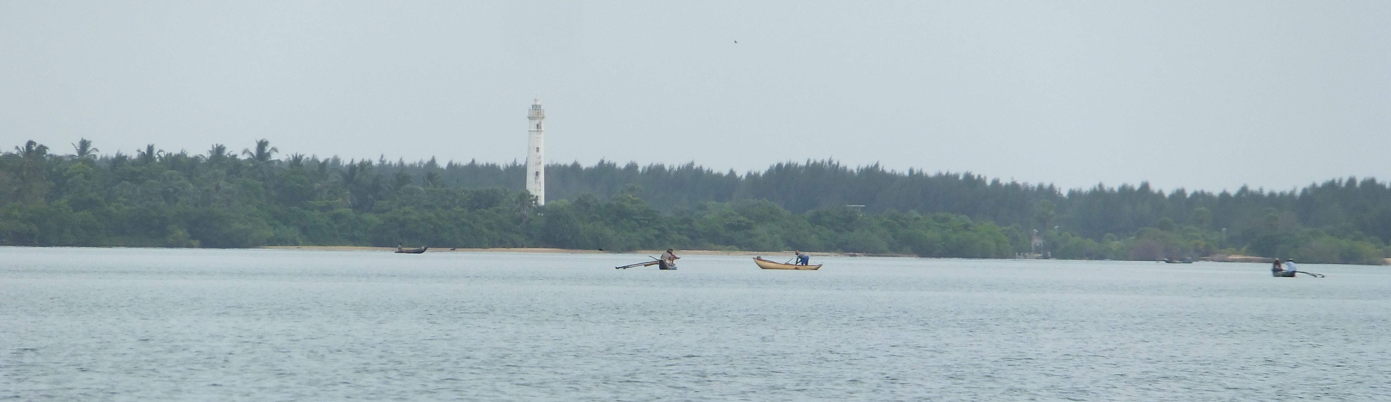 Batticaloa Lagoon